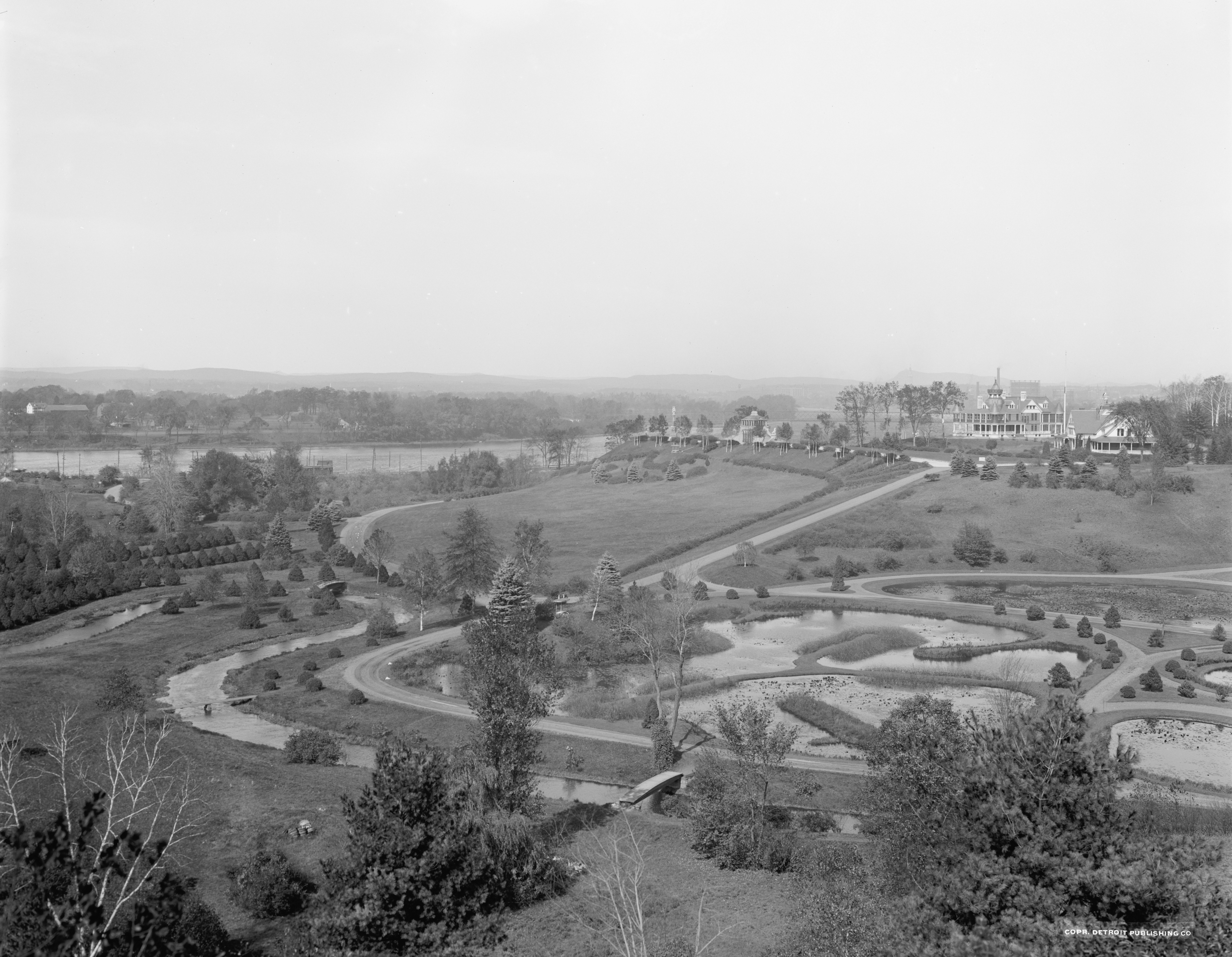 Laurel Hill and Aquatic Gardens in Forest Park, Springfield Massachusetts, between 1910 and 1920. Everett Hosmer Barney's Residence at Pecowsic, or Pecousic Villa, on Pecousic Hill can be seen (far right).